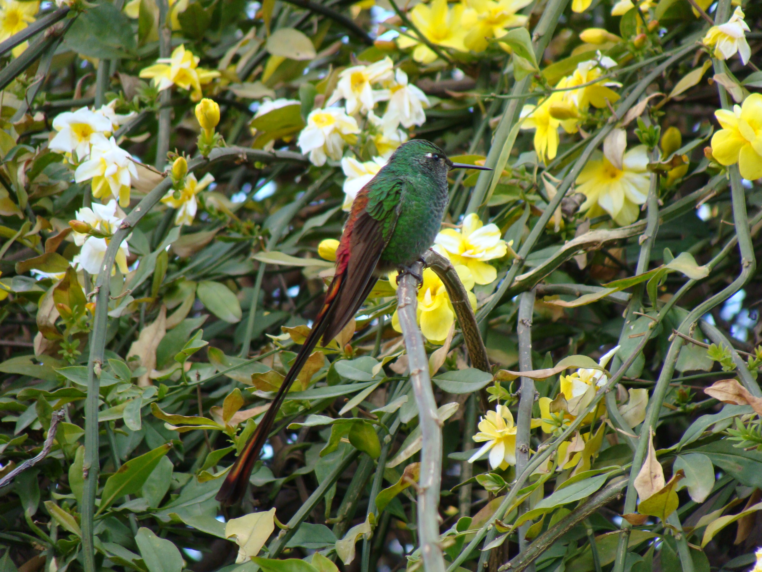 Red-tailed Comet (Sappho sparganura) in Argentina